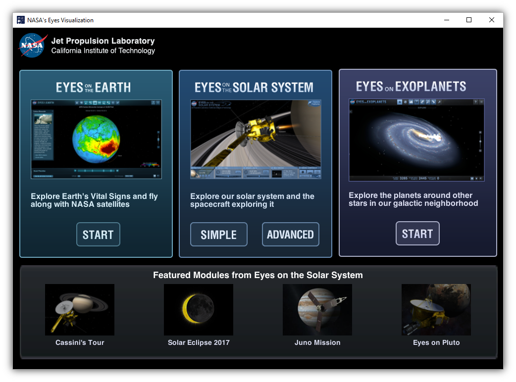 Screenshot of the splash screen of NASA's Eyes Visualization client. The client is split into three distinct software modes. On the left is "Eyes on the Earth", a simulation of the Earth based on satellite imagery. In the middle is "Eyes on the Solar System", a simulation of the solar system akin to Celestia, featuring all planets, and a majority of interplanetary spacecraft missions and minor planets. On the right is "Eyes on Exoplanets", a browser of major exoplanets and exoplanet candidates and their respective systems, mostly based on data collected from the Kepler telescope.